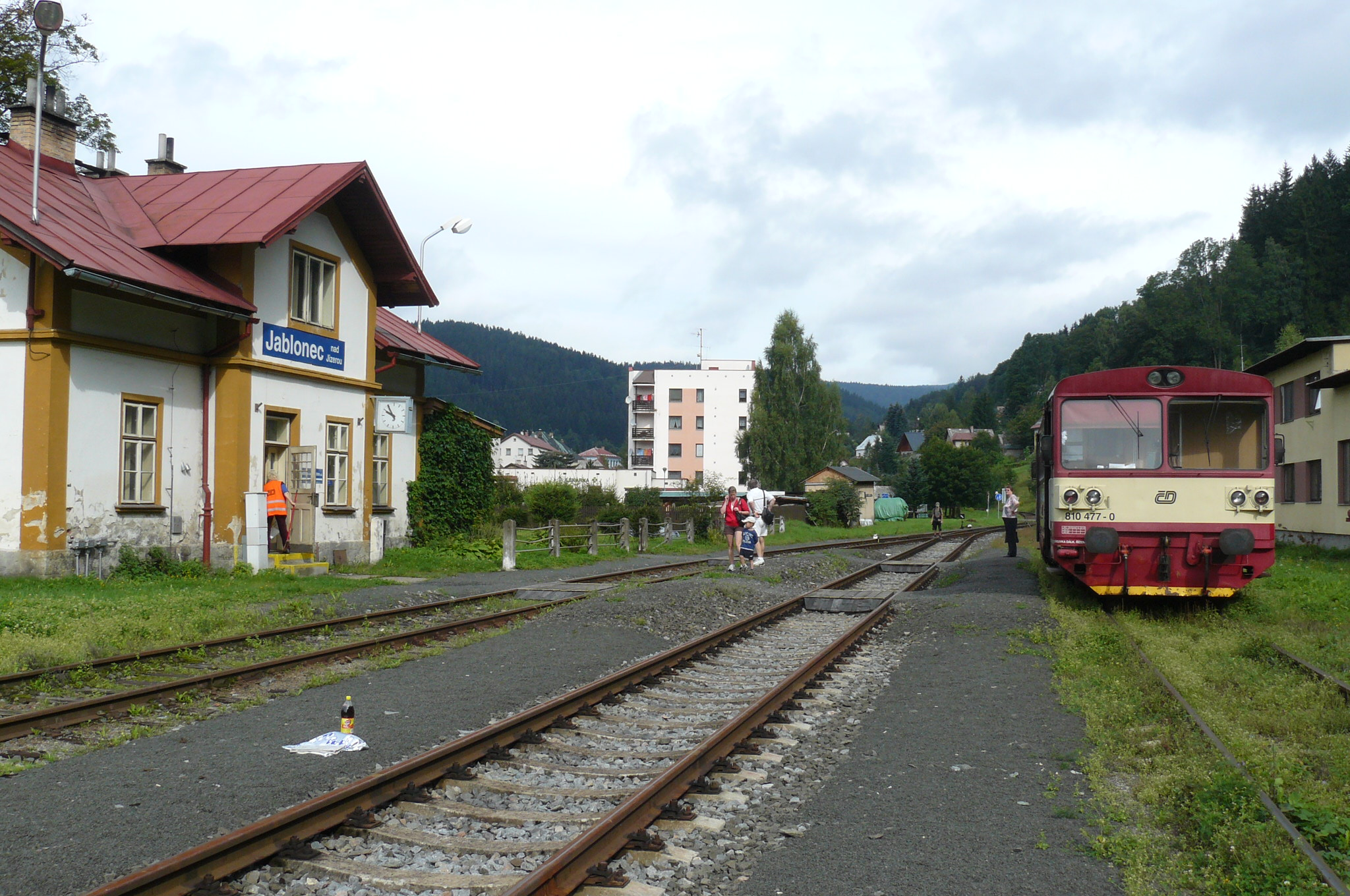 Train station Jablonec nad Jizerou